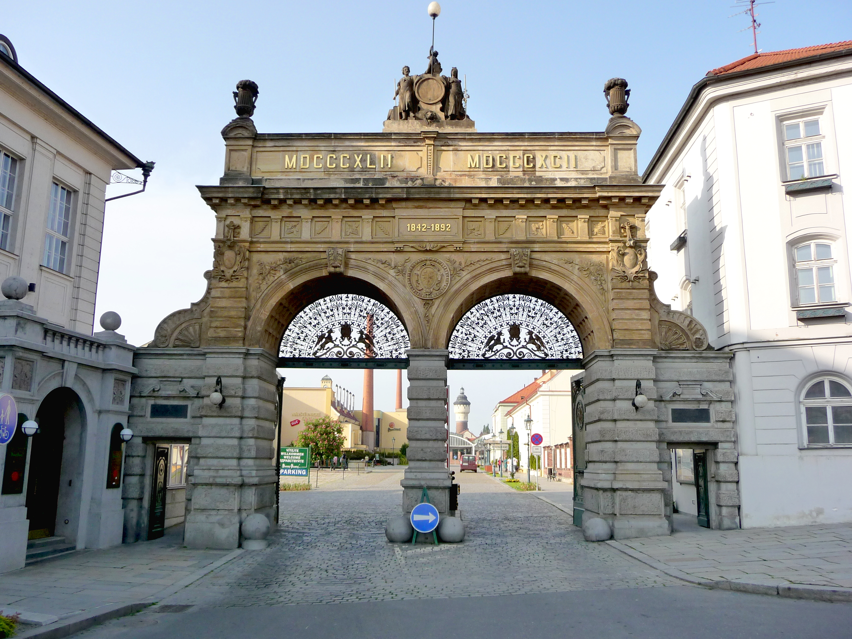 Plzeňský Prazdroj (Pilsner Urquell) Brewery - Main entrance gate